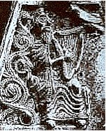 Maedoc book-cover, Ireland, circa 1000 AD: The earliest unambiguous depiction of an Irish harp